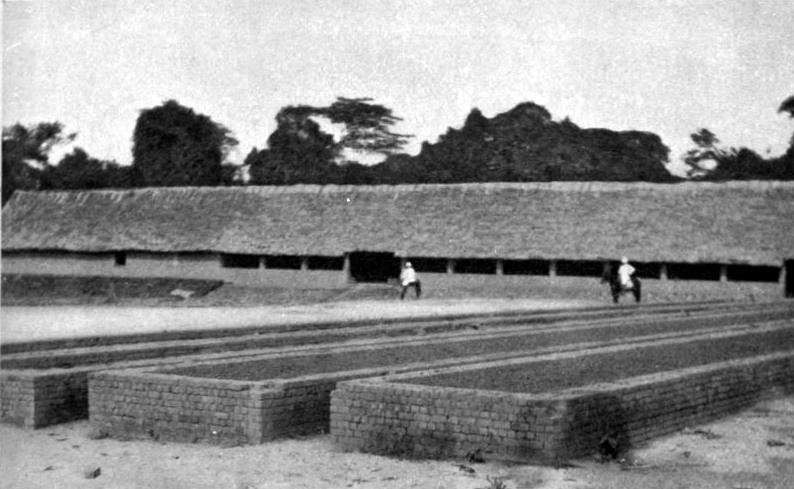 Coffee-Drying Grounds, Coquilhatville (Equateur) - p. 398